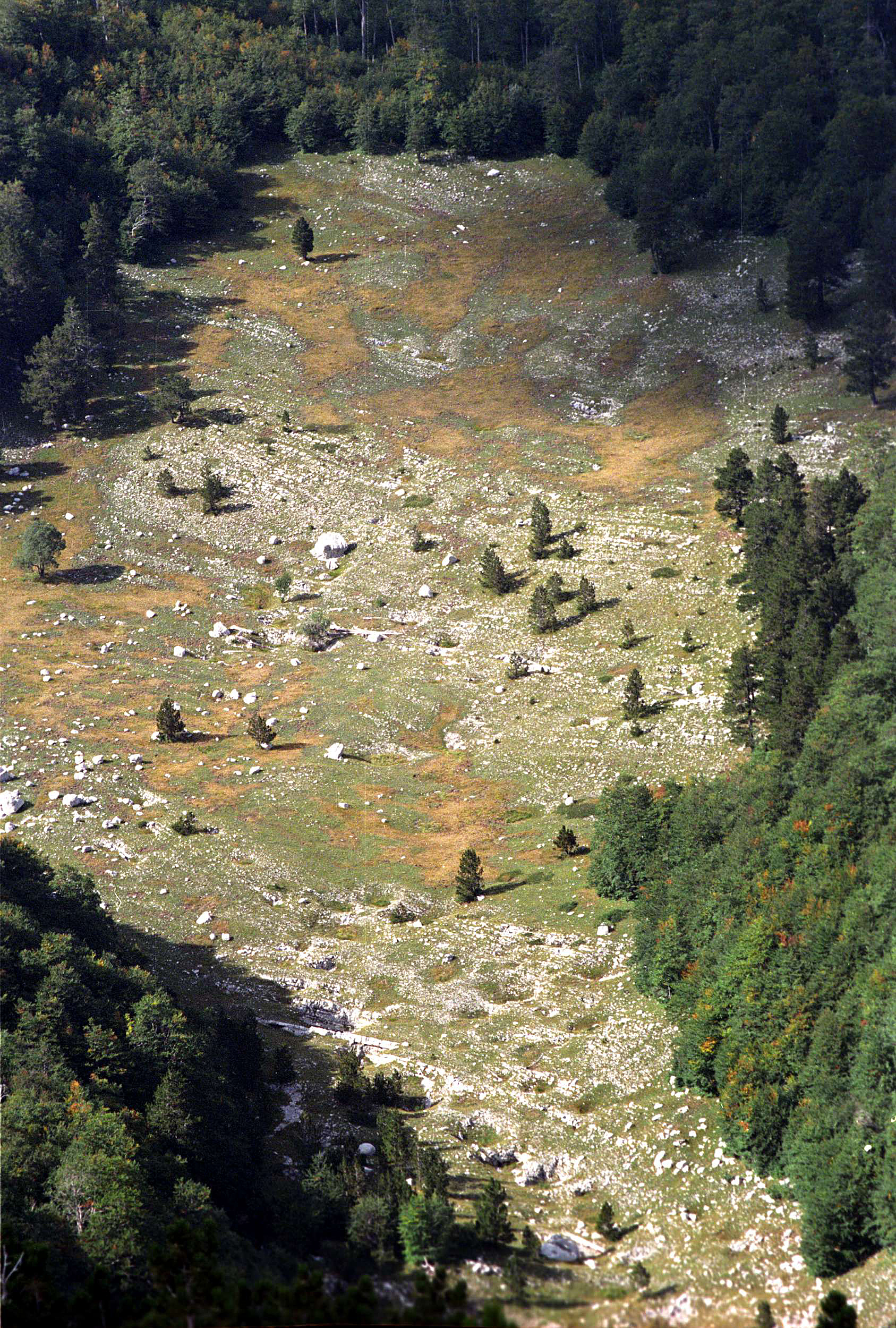 Valley Pirina poljana, Orjen. Dinaric Mediterranean limestone mountain range in Montenegro-Bosnia and Herzegovina.